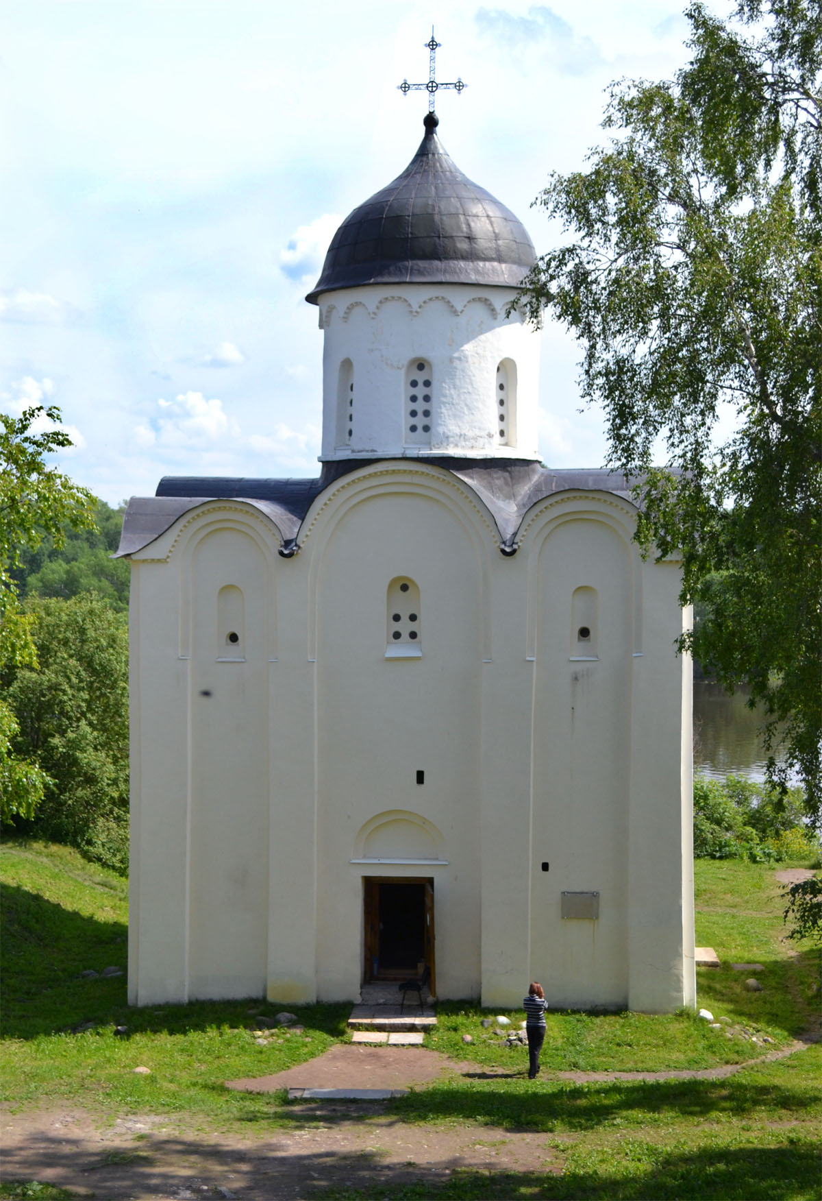 The photo of St. George's Church in Old Ladoga, Russia. The photo was made from the castle's wall.